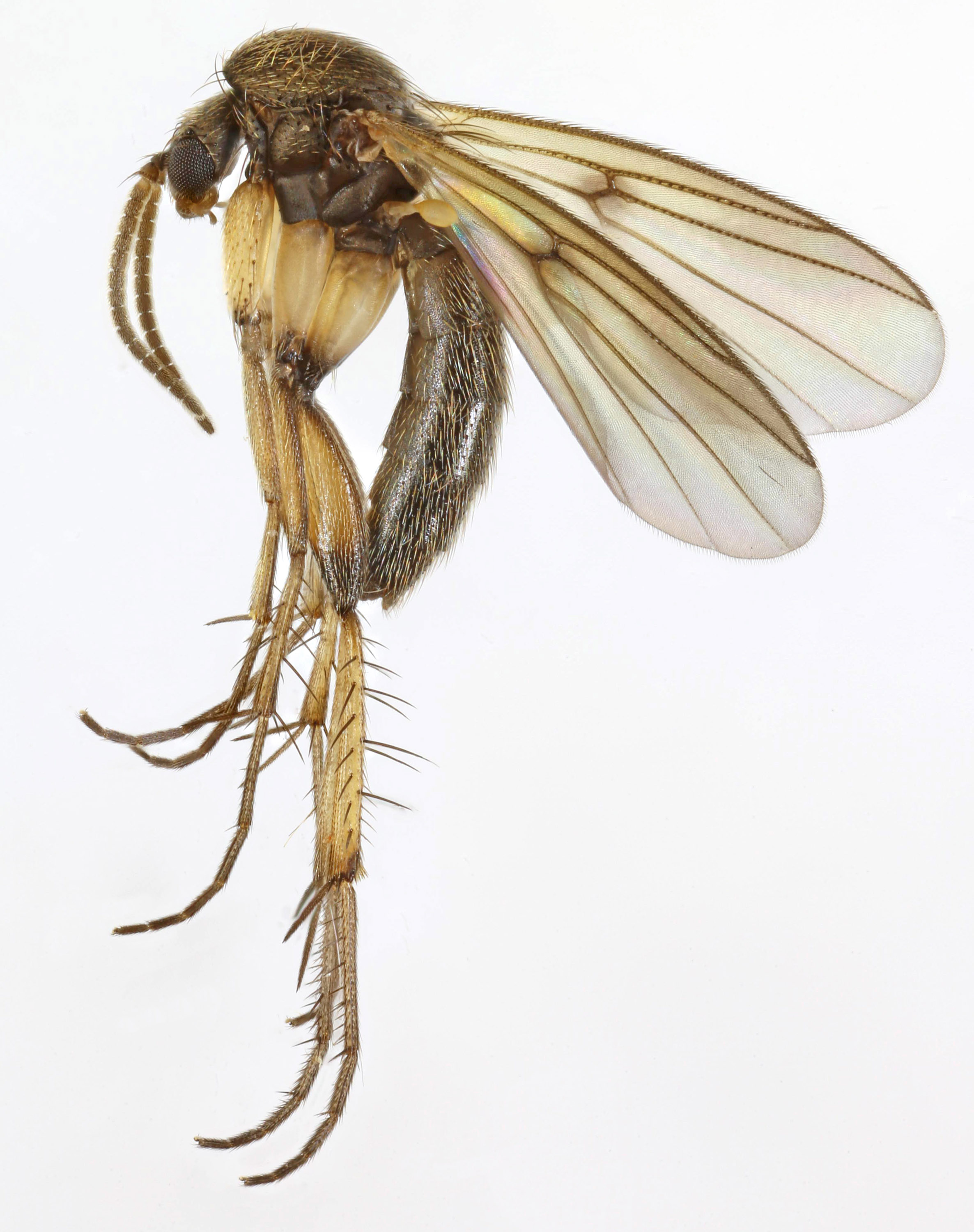 Zygomyia humeralis, Trawscoed, North Wales, May 2017 2